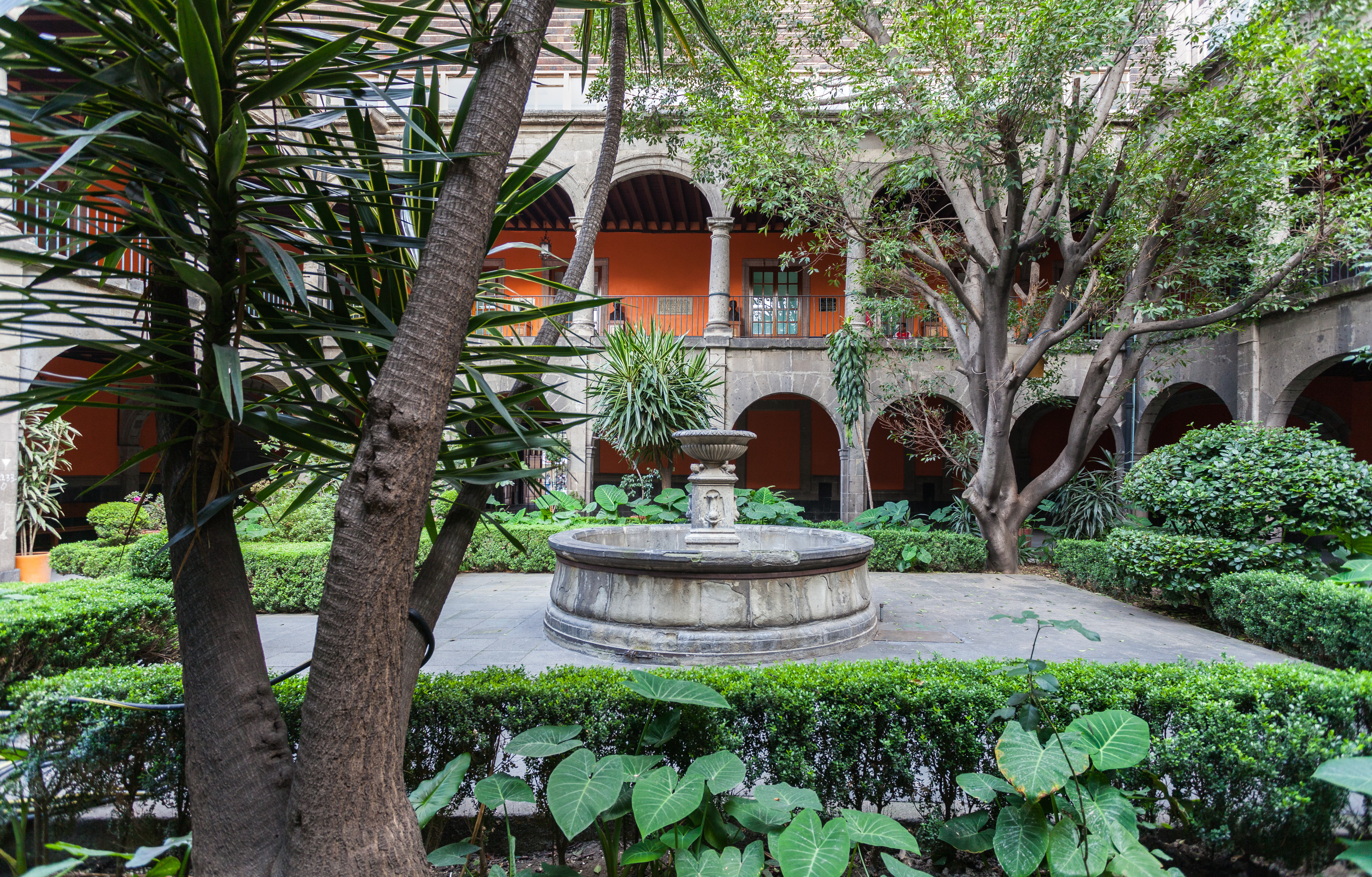 Hospital of Jesus of Nazareth, Mexico City, Mexico